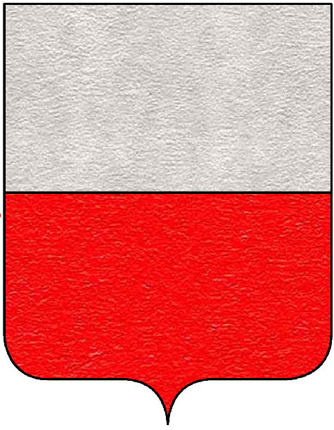 Dandolo Family coat of arms